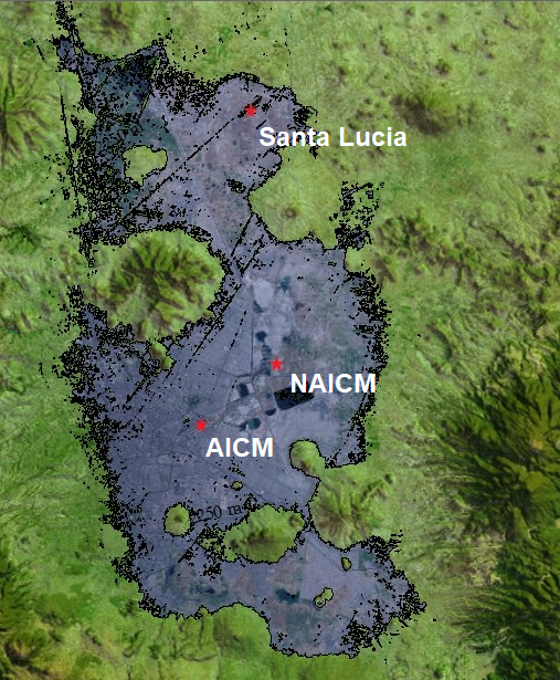 Airports built on land formerly occupied by the now dried-up "Texcoco lake" (AICM and NAICM on Texcoco lake and Santa Lucia on Xaltocan lake)